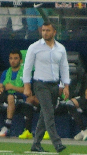 Gurban Gurbanov in 2014